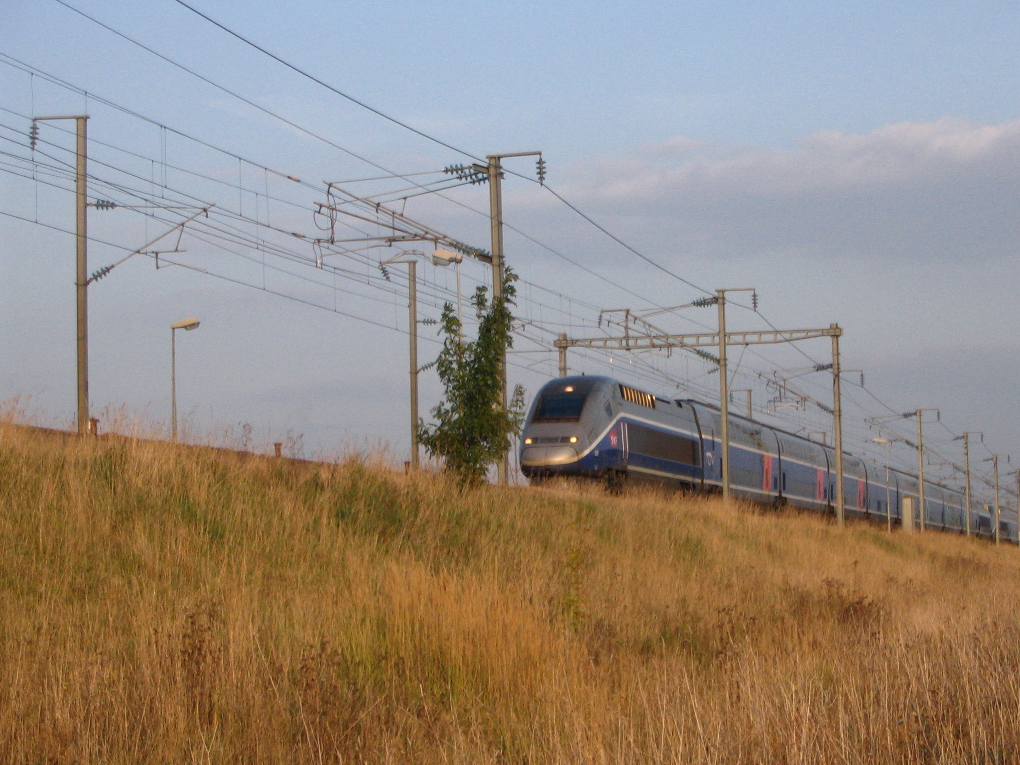 A TGV at the western corner of the "Triangle de Coubert", on LGV Interconnexion Est, in Seine-et-Marne, France.